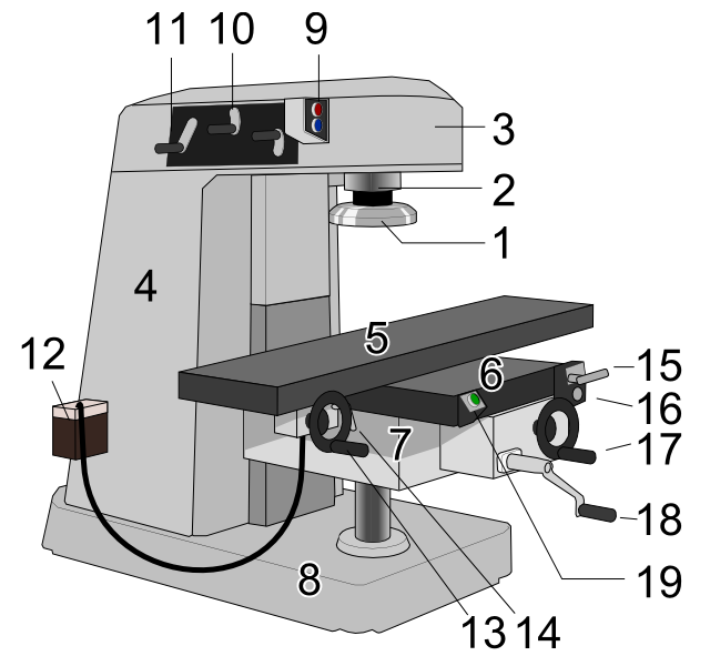 Milling machine (Vertical, Manual) No Text 1.Face milling cutter 2.Spindle 3.Spindle head 4.Column 5.Table 6.Saddle 7.Knee 8.Base 9.Spindle switch 10.Spindle speed gear lever 11.Spindle speed control lever 12.Oil tank 13.Table manual wheel 14.Table lock bar 15.Saddle automatic moving bar 16.Saddle automatic moving control dial 17.Saddle manual wheel 18.Knee manual wheel 19.Quick button